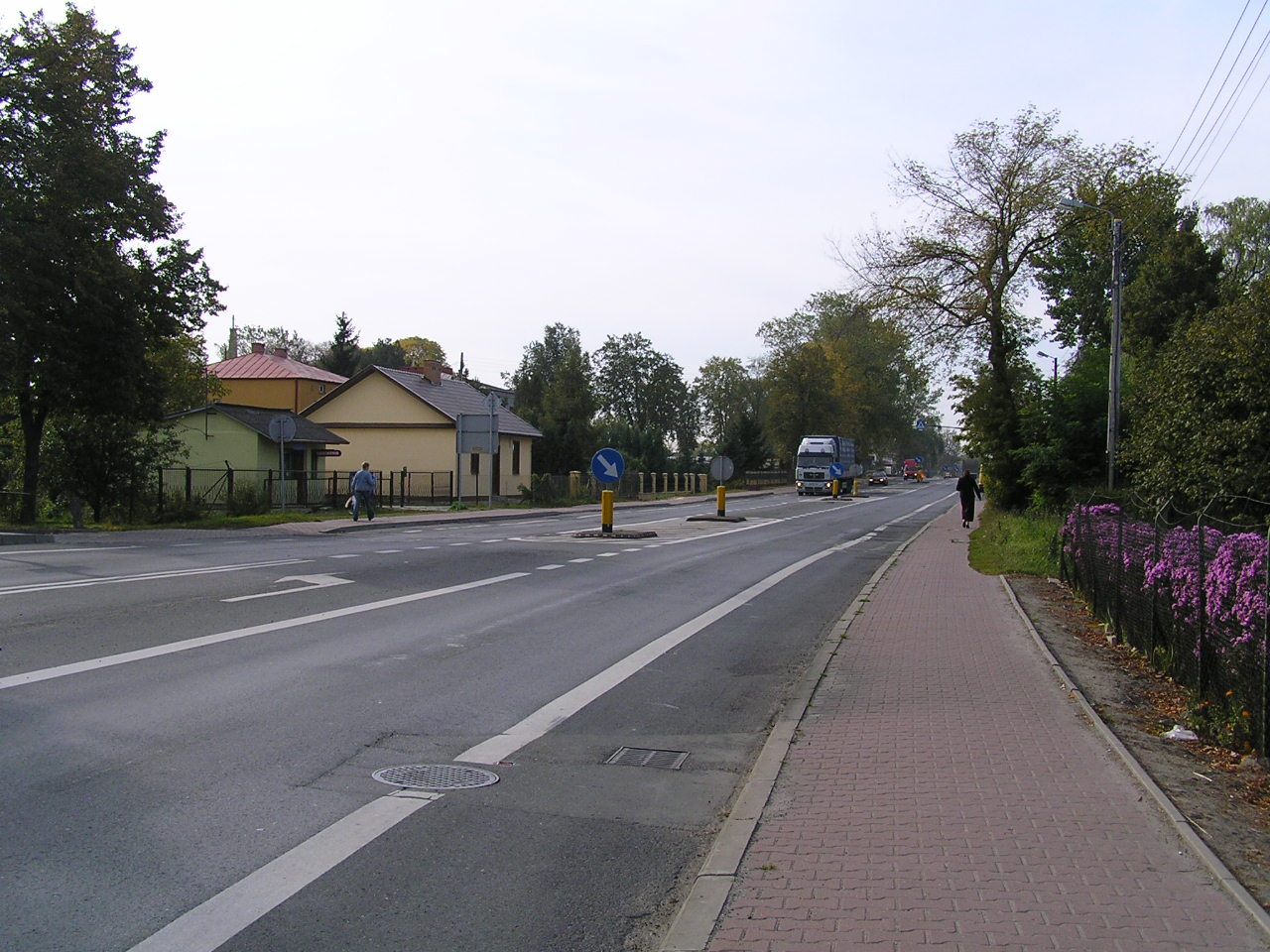 autor: Yarek shalom 20:31, 12 October 2006 (UTC)yarek shalom